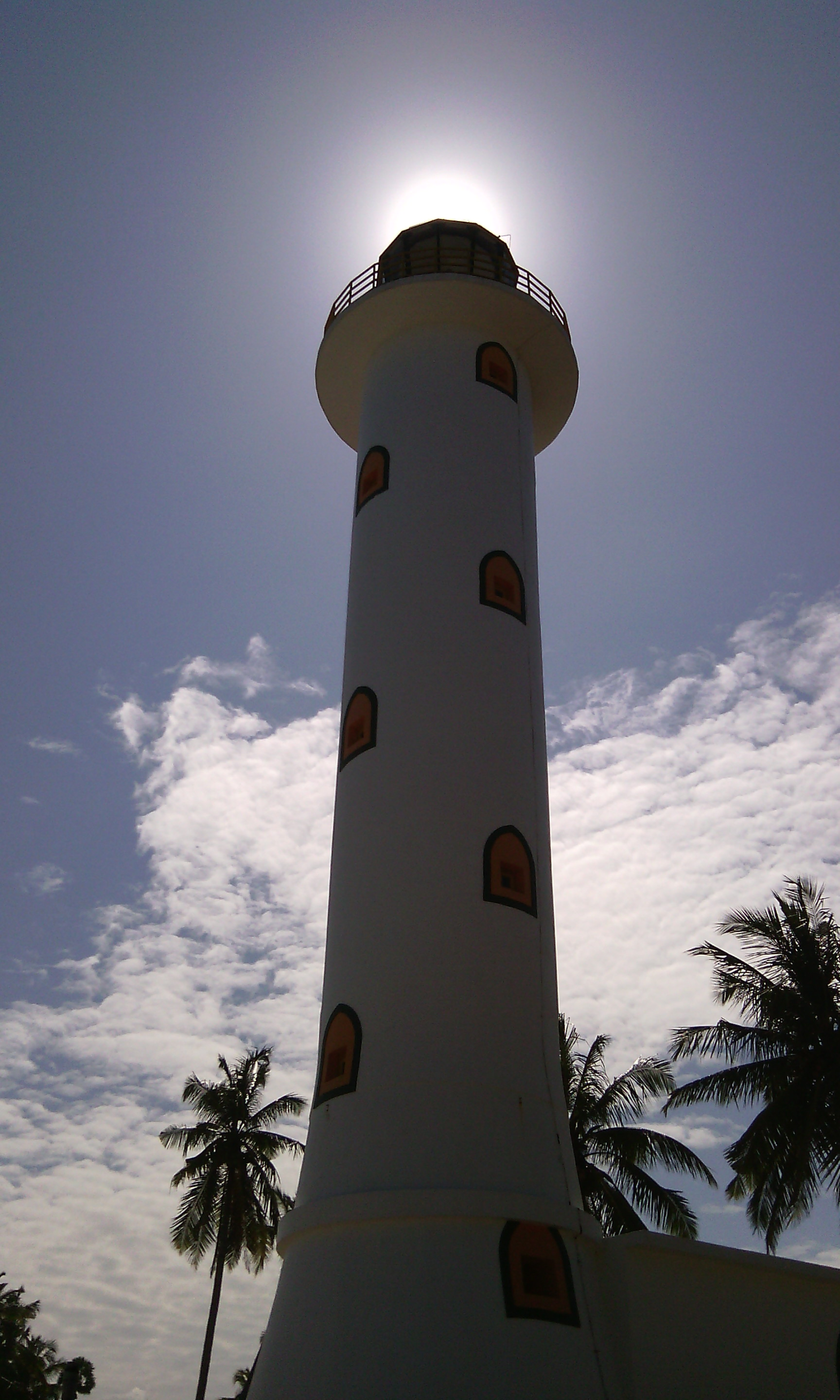 Oluvil Lighthouse, Sri Lanka